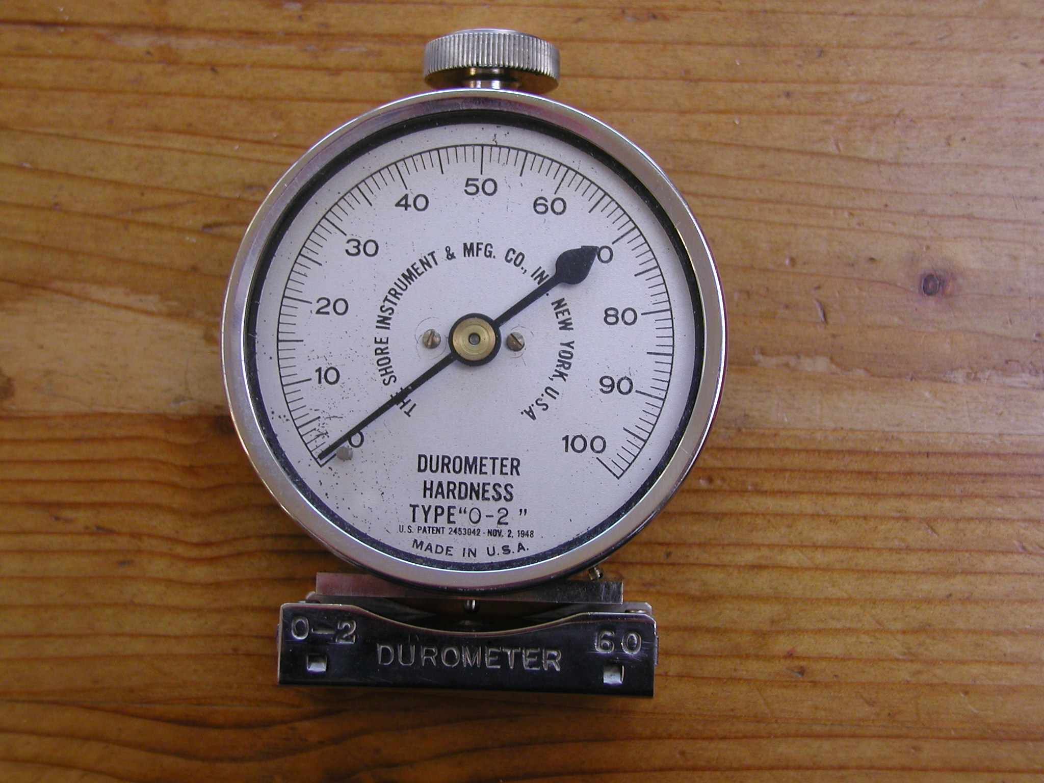 Meter to determine the hardness of warping beams.